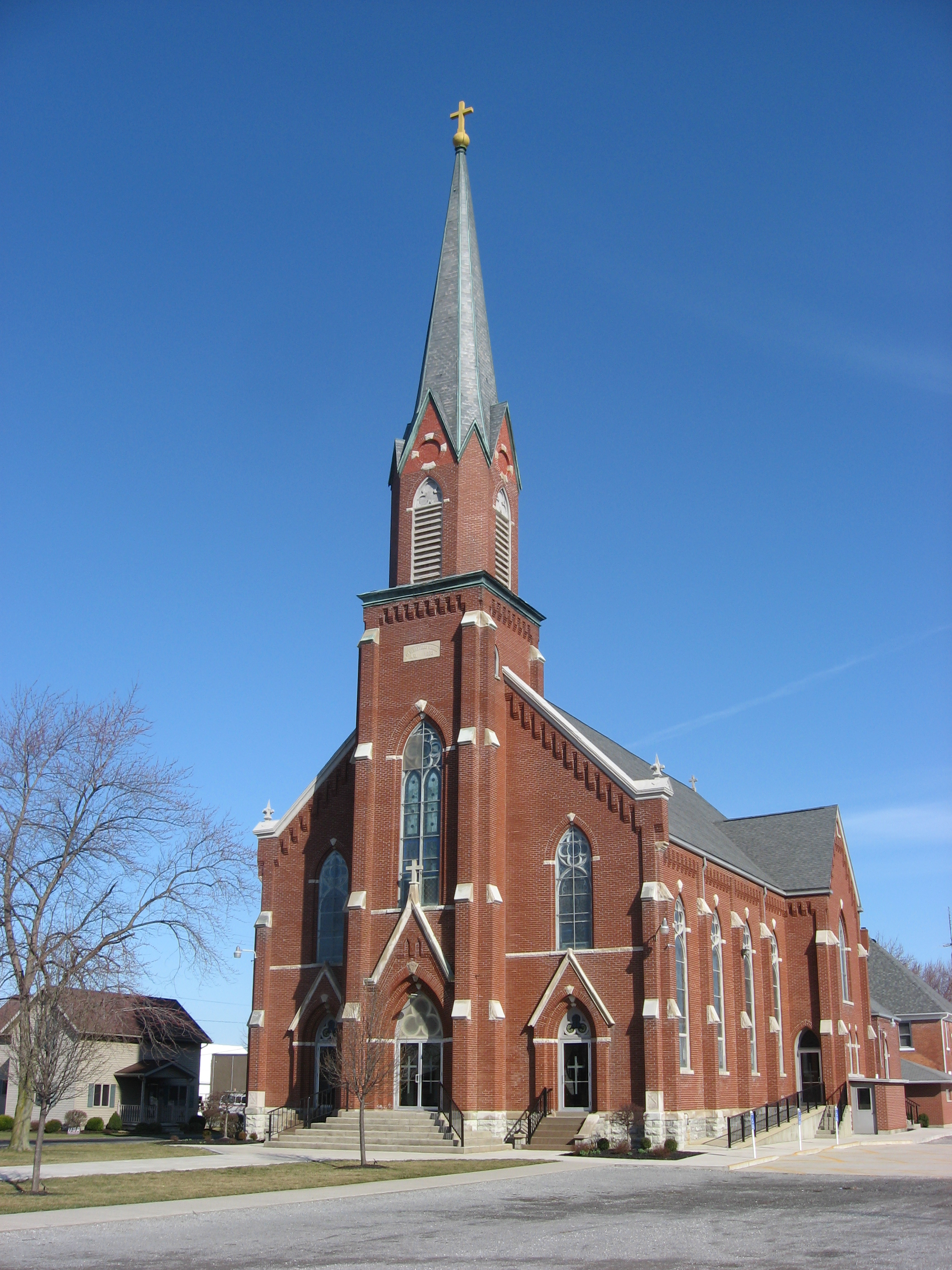 Front and eastern side of St. Sebastian's Catholic Church, located at the intersection of County Road 716A and Sebastian Road at Sebastian, an unincorporated community in Marion Township, Mercer County, Ohio, United States. Built in 1904, the church was added to the National Register of Historic Places as a part of the Cross-Tipped Churches of Ohio Thematic Resources.